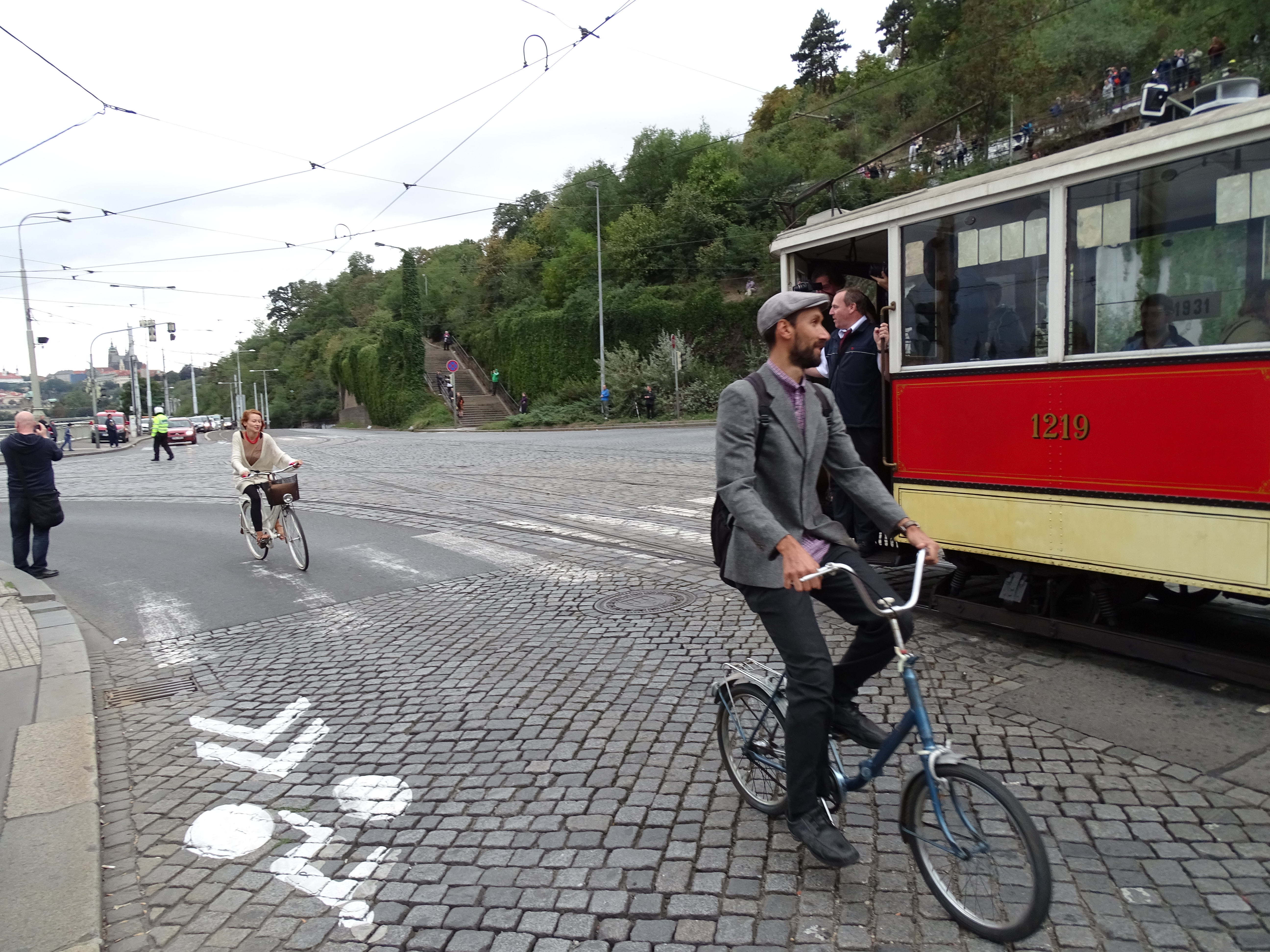 Prague-Holešovice, Czech Republic. Nábřeží Kapitána Jaroše, a tram parade, tram #2222 + #1111 + #1219.